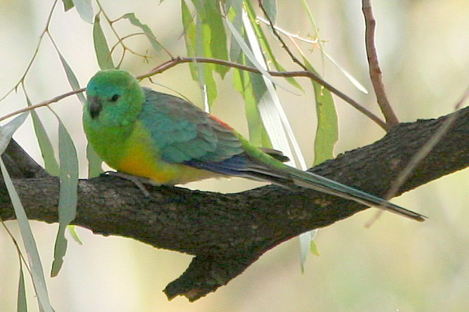 Red-rumped Parrot, Psephotus haematonotus.